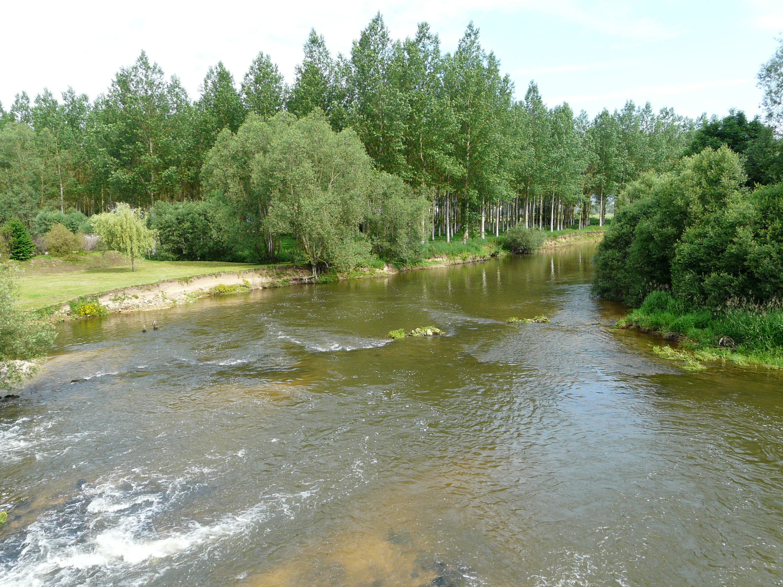 River Meuse in Sorcy-Saint-Martin